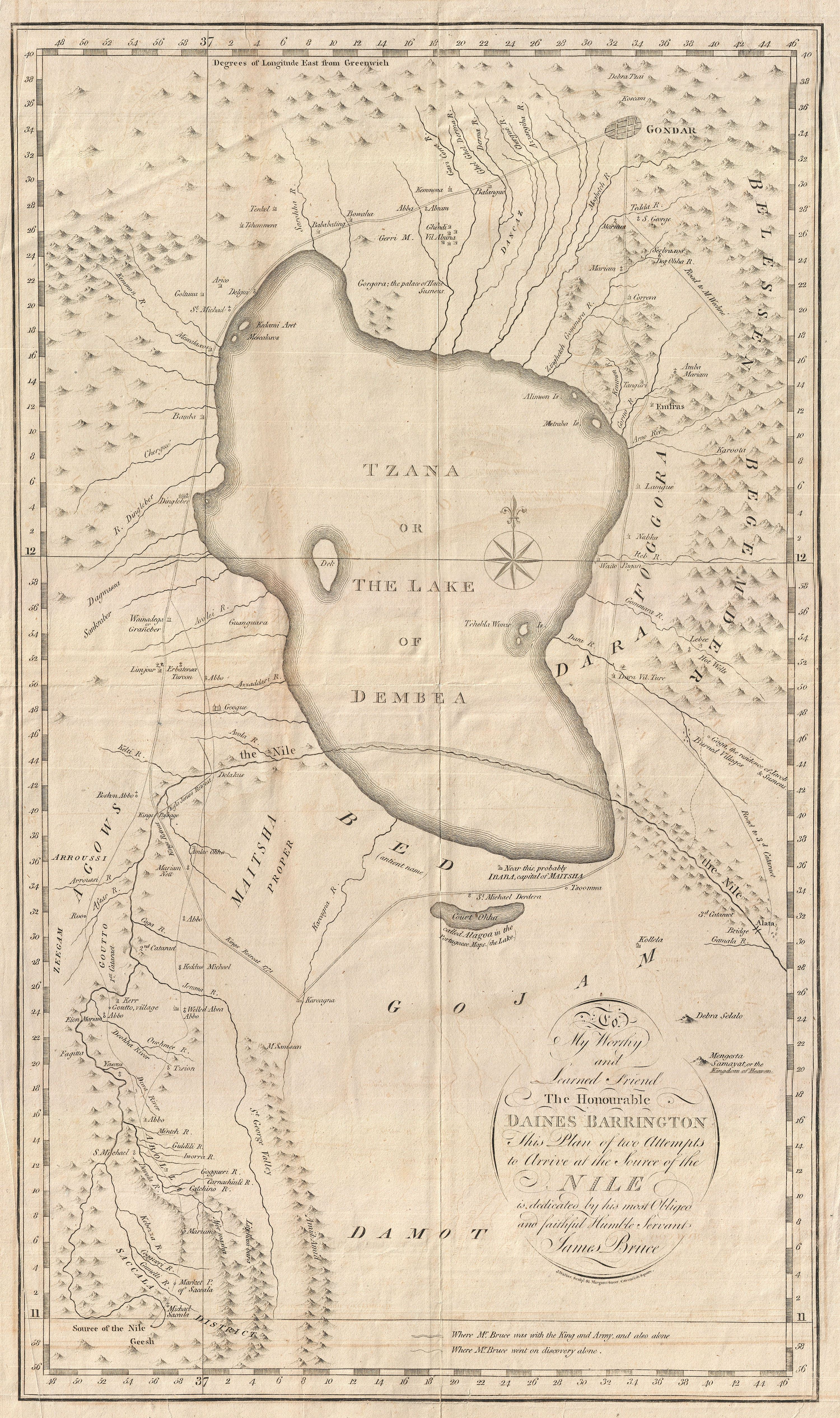 Detailed 1790 map of ethiopia (Abyssinia) and the source of the Blue Nile by the Scottish adventurer James Bruce. Centered on Lake Tana (Tzana), this map covers from the ethiopian capital at Gondar south as far as the Saccala District and the Geesh Abay (Geesh Springs). The map plots Bruce's travels in search of the source of the Blue Nile starting from the ethiopian capital of Gondar. Local guides led Bruce southwards around Lake Tana (Tzana) and eventually down the Abay River to Gish Abay, the source of the Blue Nile. Bruce claimed to have discovered the Gish Abay springs, but in a fact that he was well aware of, was merely retracing the steps of the Jesuit missionaries Pedro Paez and Jeronimo Lobo.